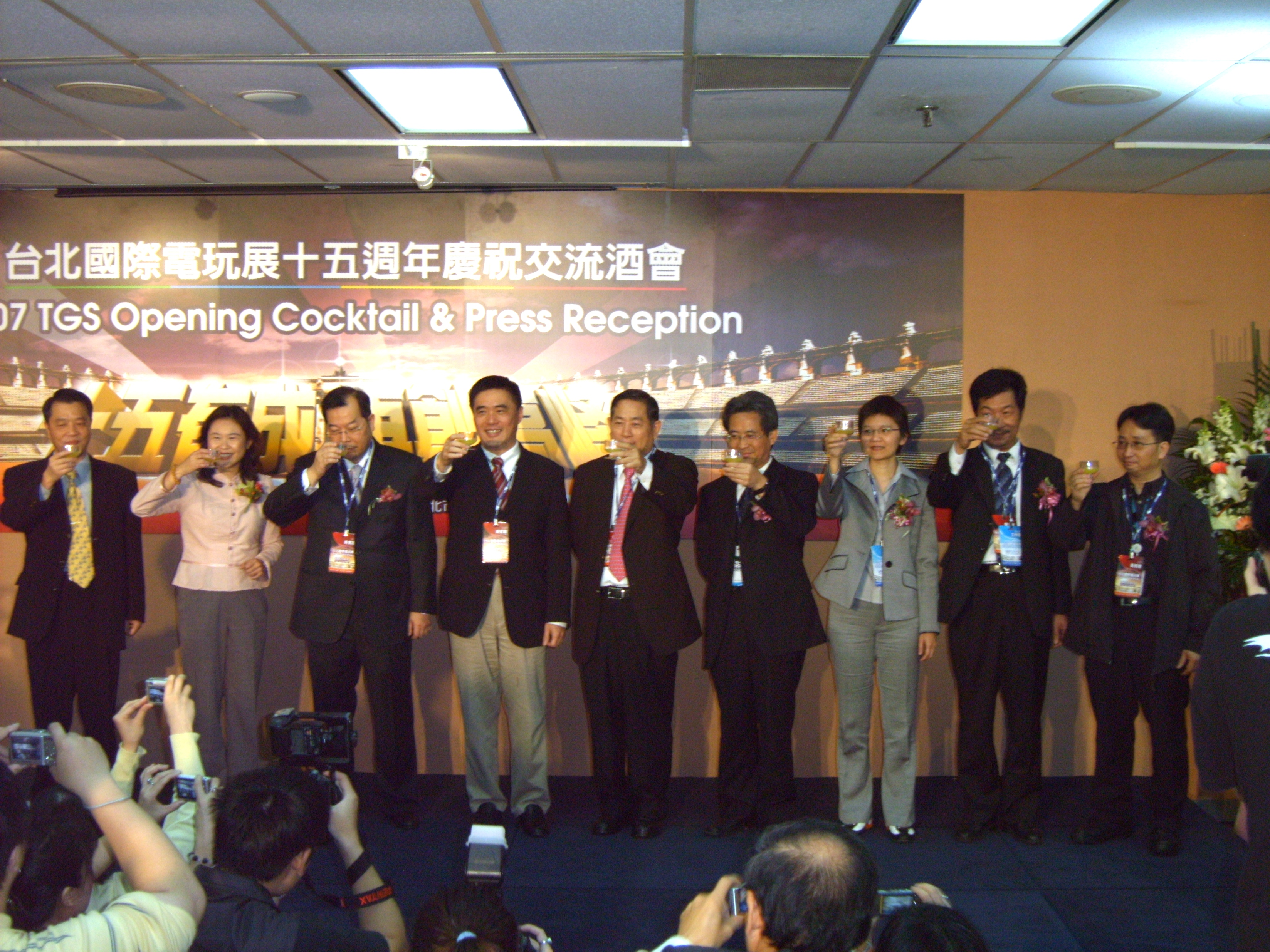 VIPs rose their wineglasses and hope 2007 Taipei Game Show hold successfully.